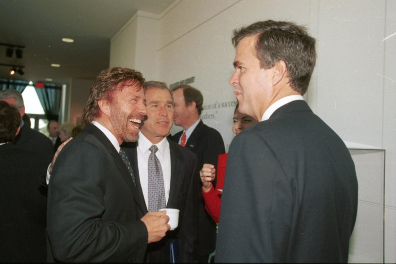 Chuck Norris speaks with George W. and Jeb Bush at the Dedication of the George Bush Presidential Library and Museum.